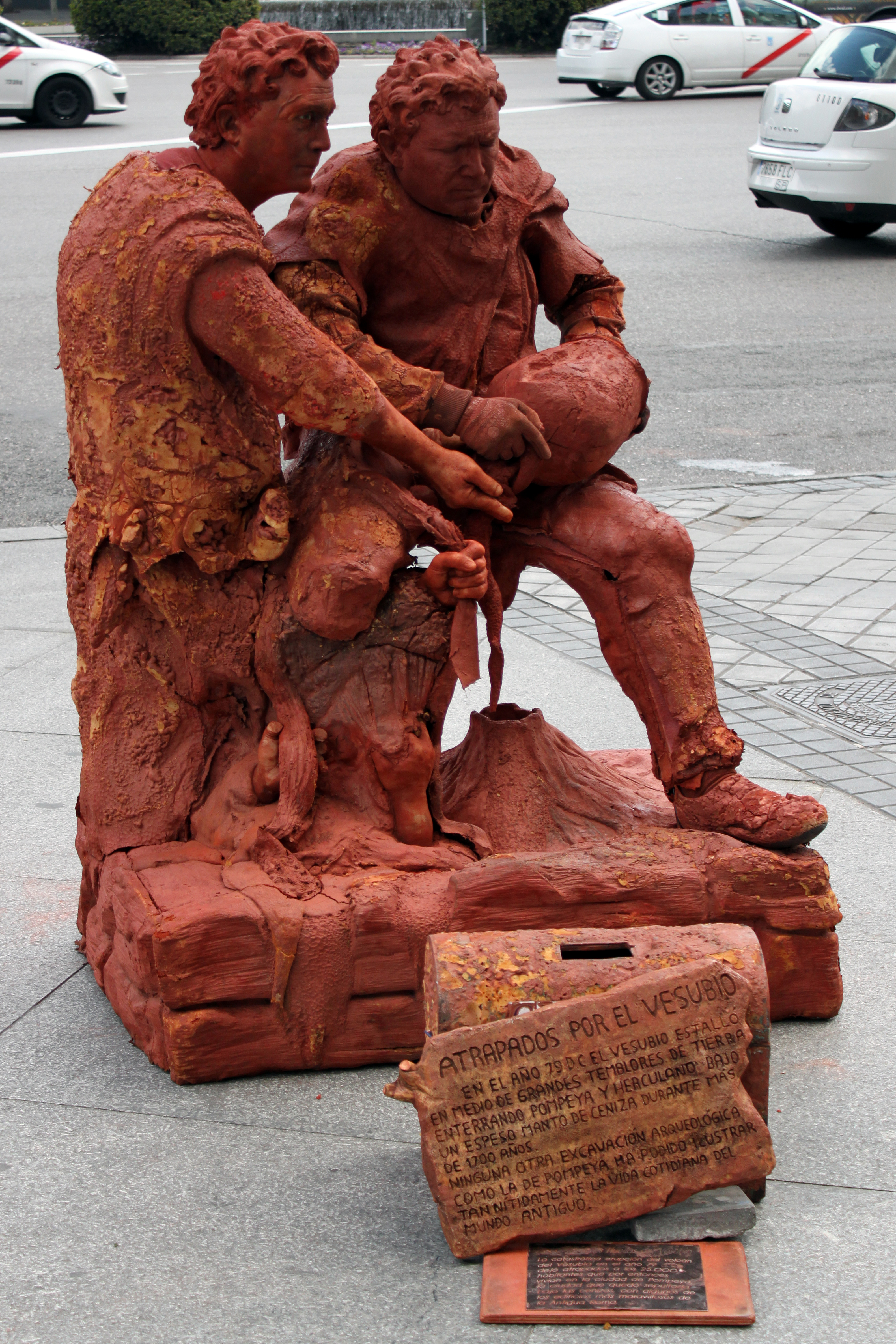 Street artists in Madrid, Spain